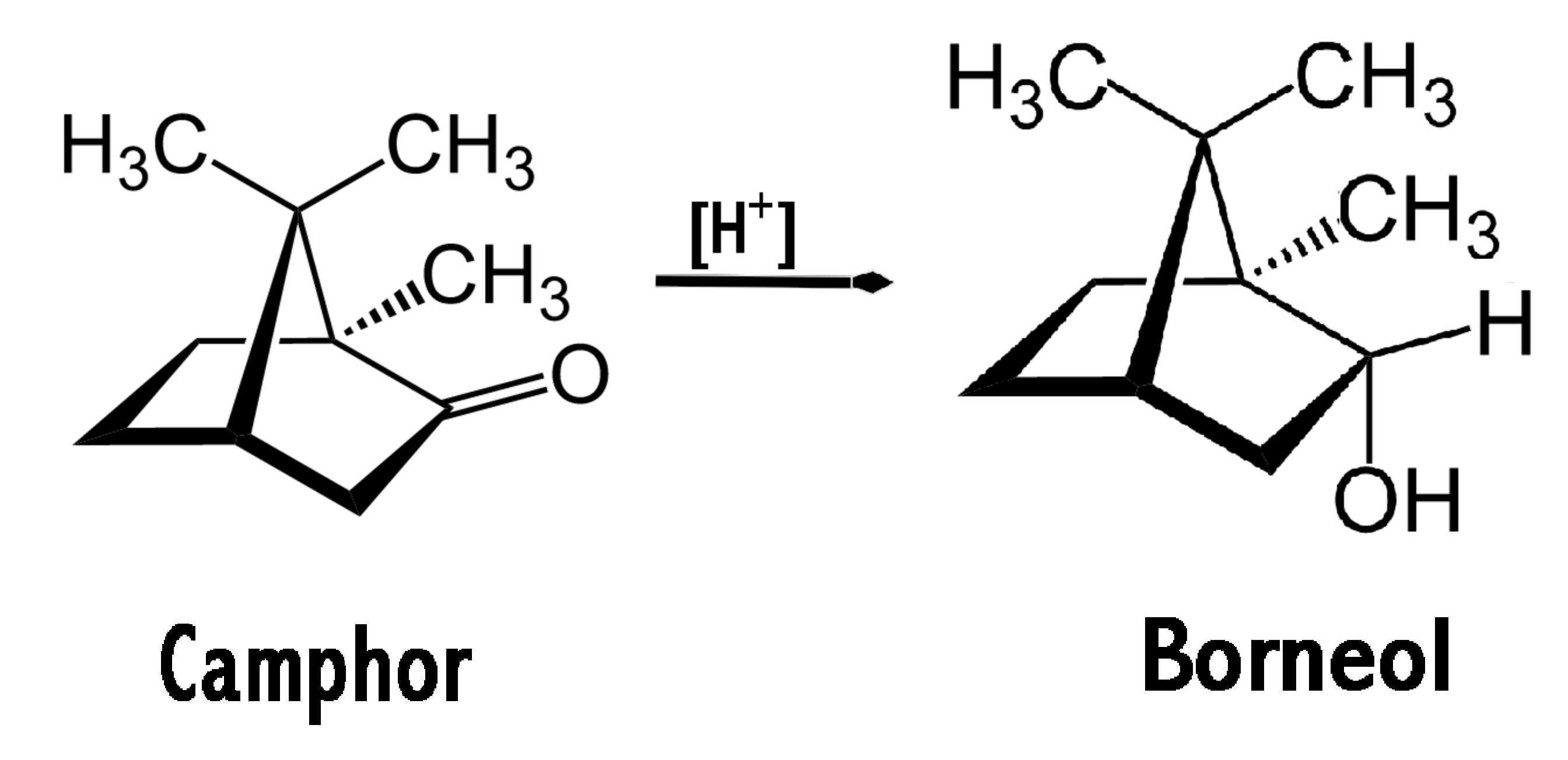 Bornyl alcohol synthesis